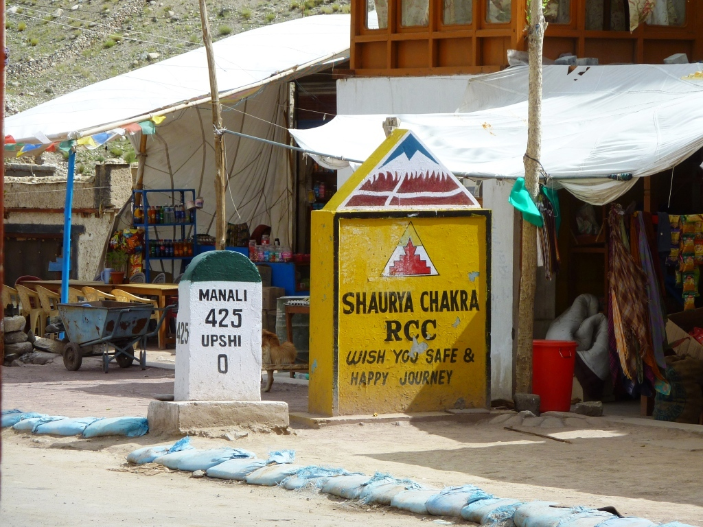 I took this photo on a trip through Ladakh and neighbouring regions in 2010